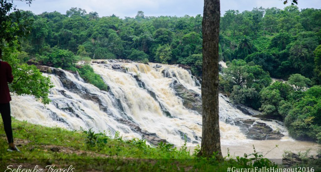 View from the front of the waterfall